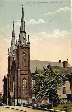 Postcard image of St. John's Cathedral in Altoona, Pennsylvania. It was torn down in 1923 to make room for the Cathedral of the Blessed Sacrament.